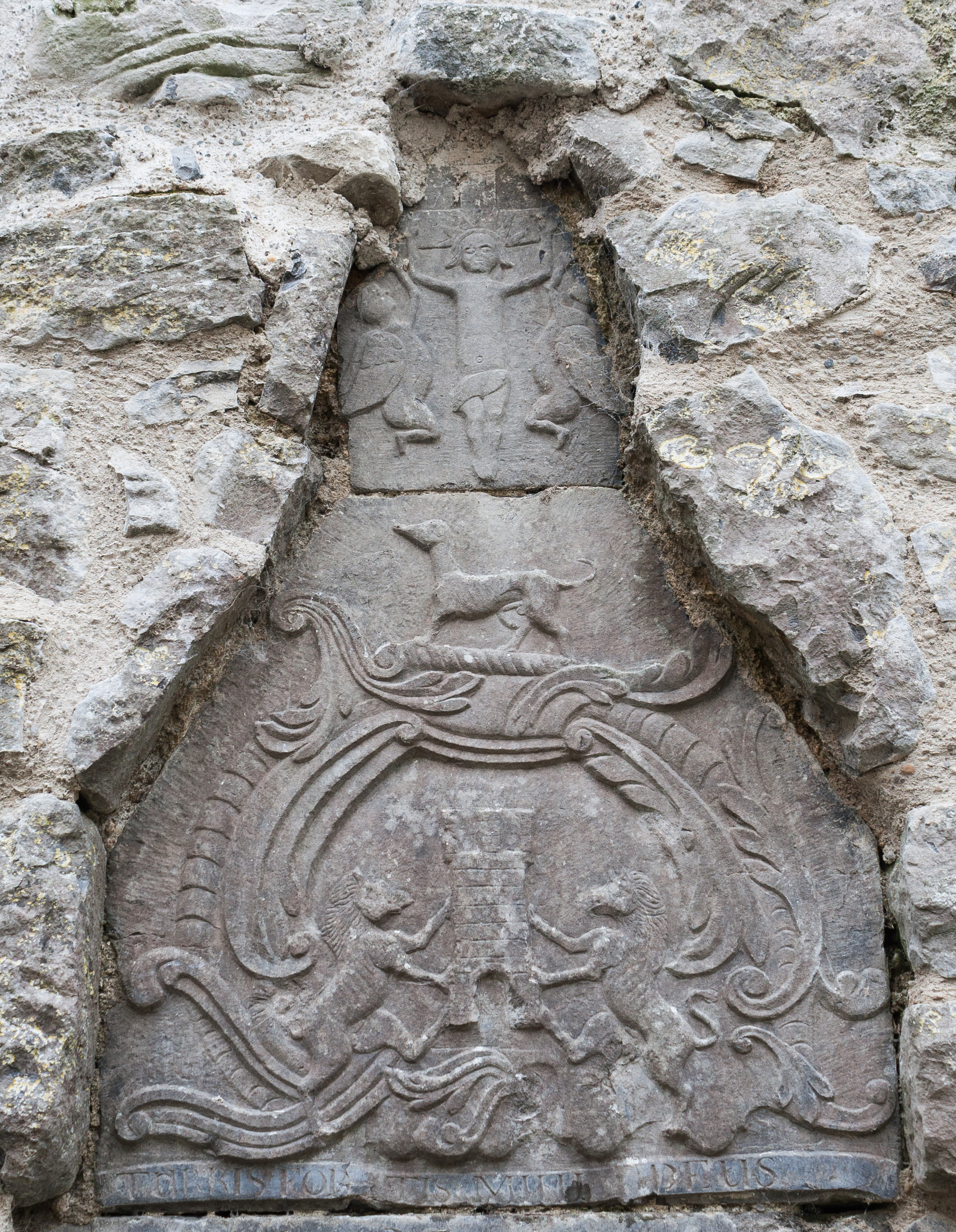 Coat of arms of the Kelly family with the motto Turris fortis mihi deus.